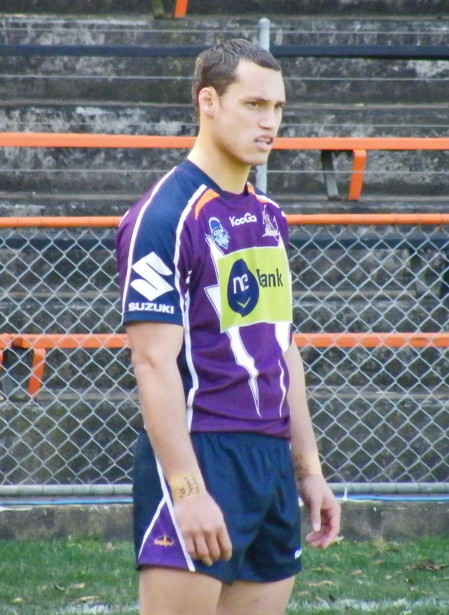 Dane Chisholm of the Melbourne Storm RLFC